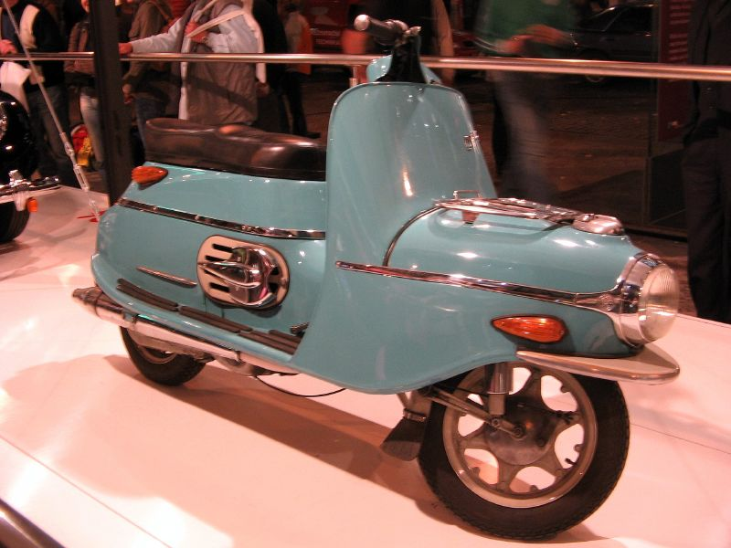 Quite possibly the ugliest scooter ever made representing Czech design from the 1950's to the 1960's on display as part of DesignBlok '05 in Wenceslas Square in Prague, Czech Republic.